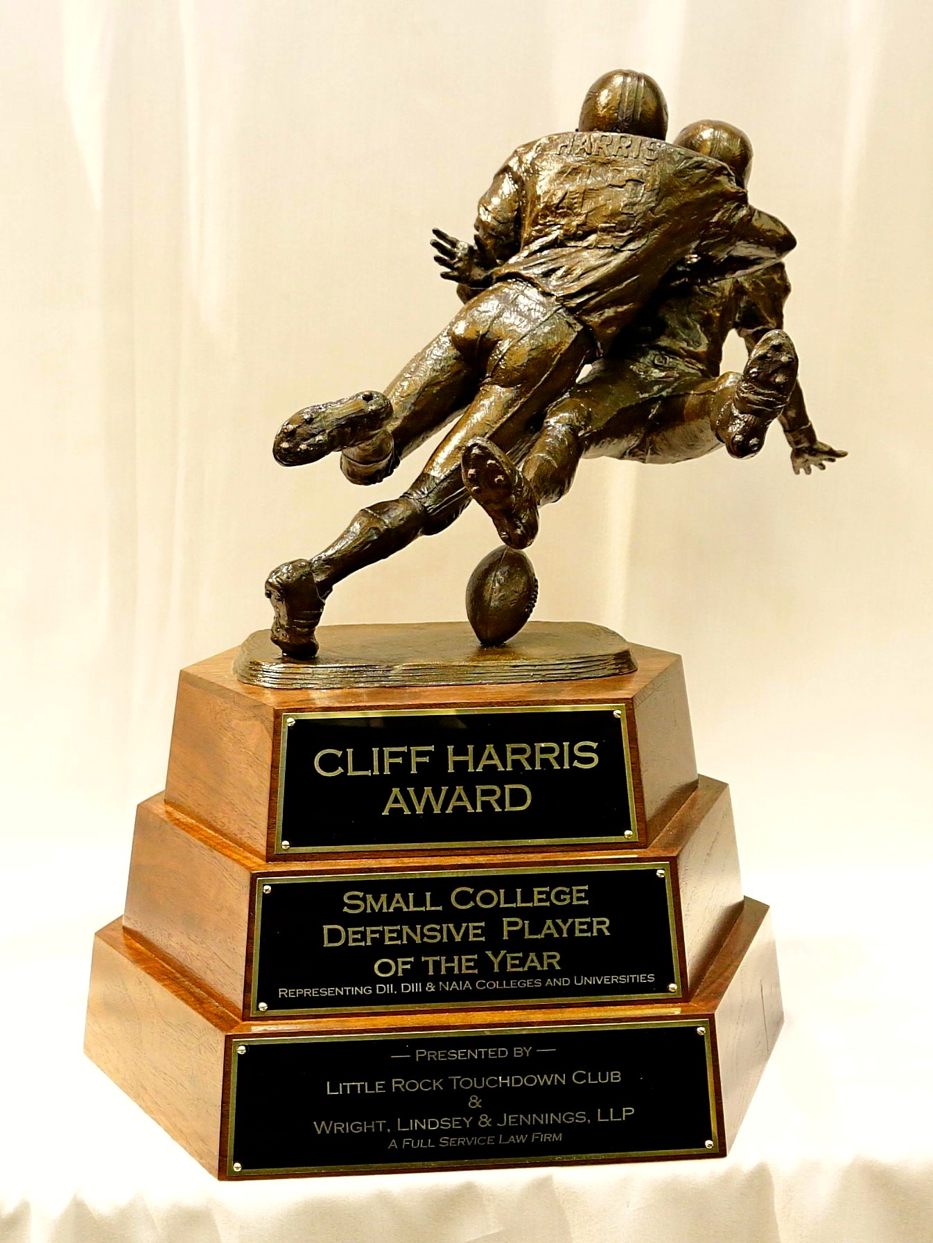 Cliff Harris Award Trophy